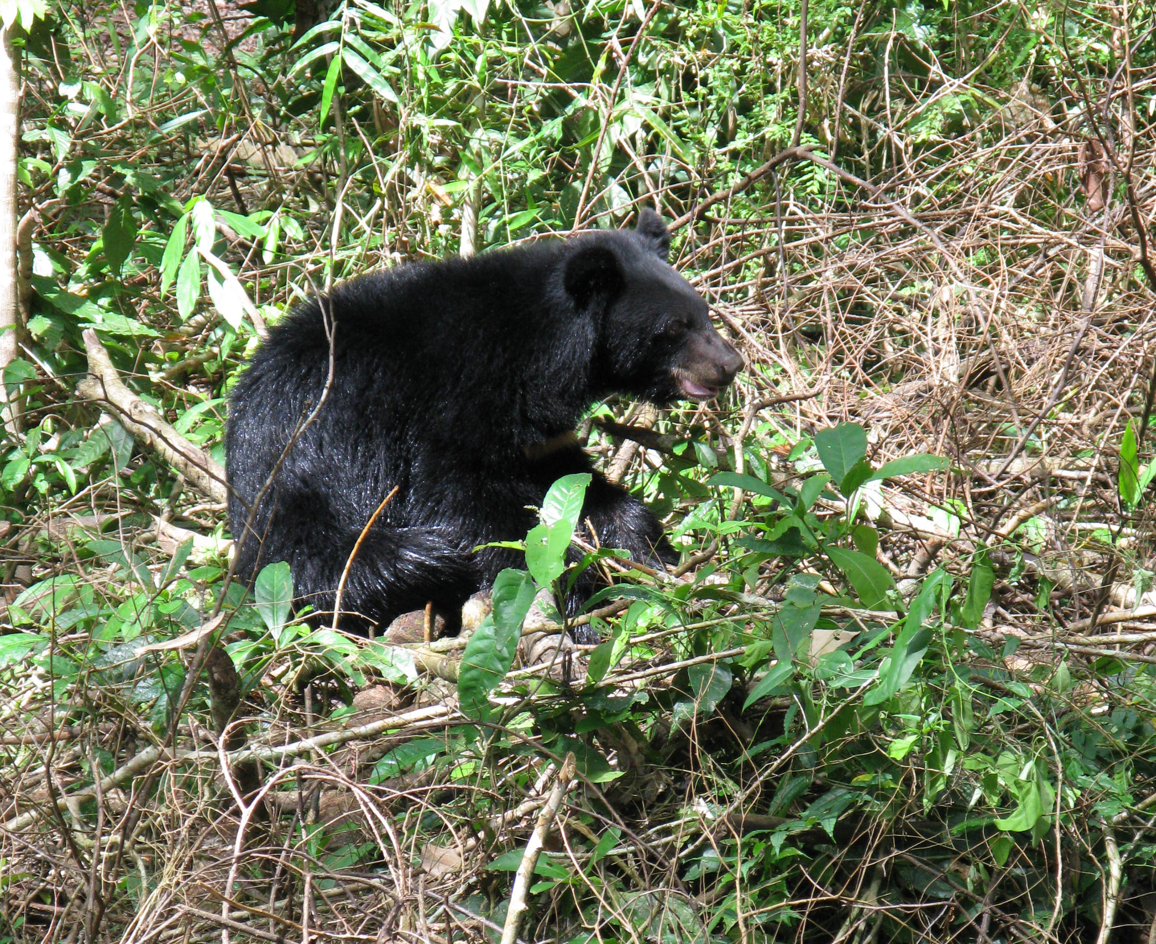 Asian black bear in Cat Tien National Park by RPB